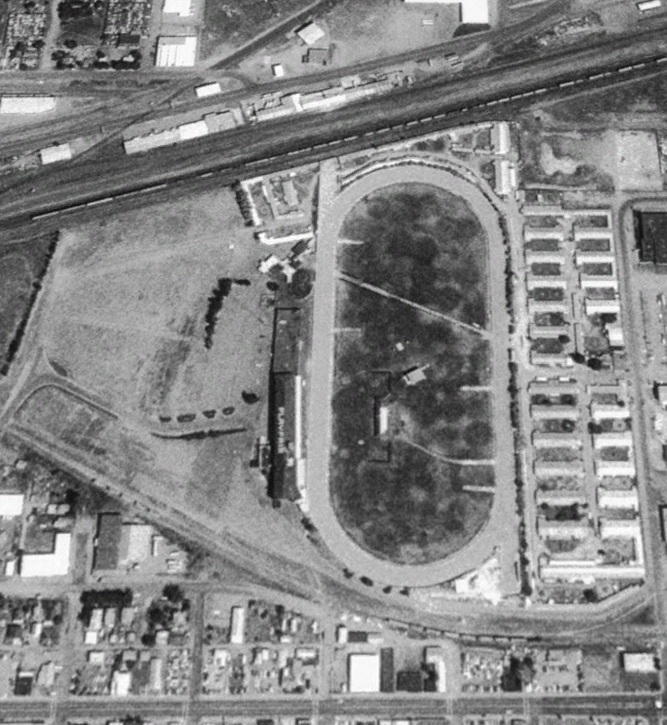 Aerial view of the facility in 1995